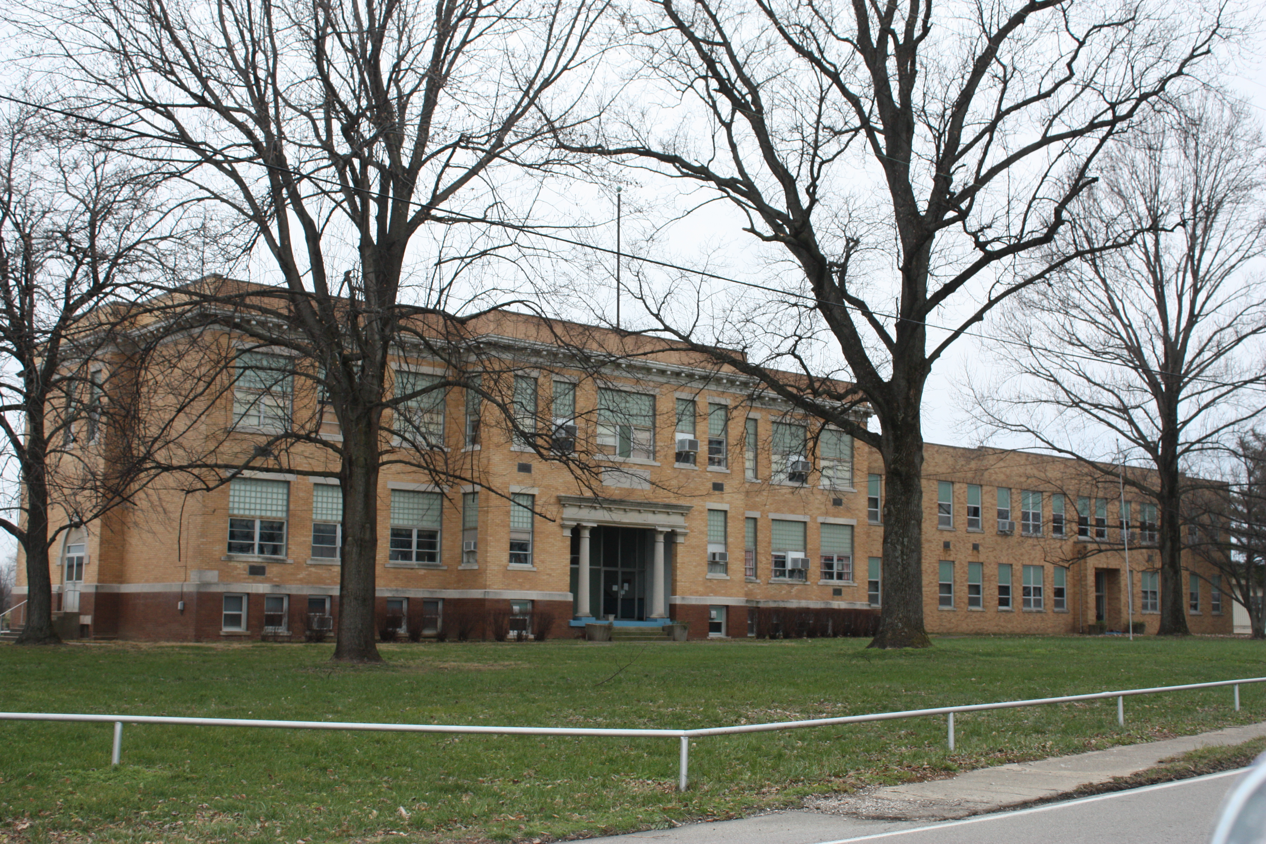 The former Monroe City High School, in Monroe City, Indiana. Now used as a community centre.